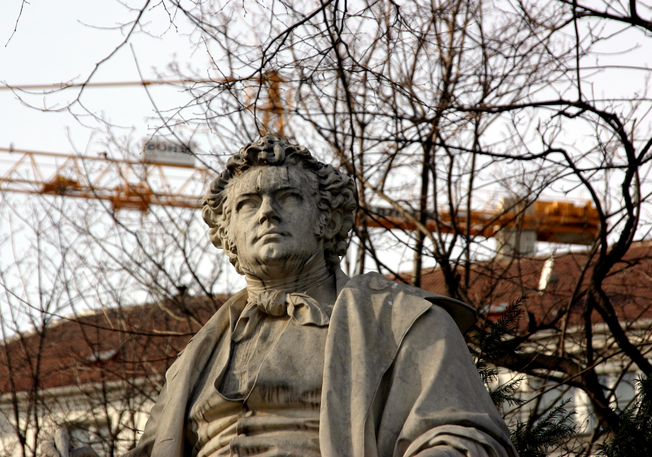 Stadtpark, Vienna